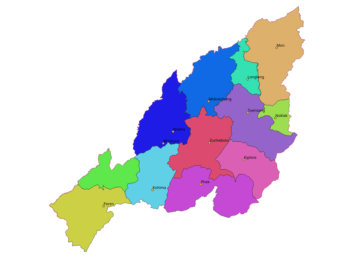 OSM data; QGIS